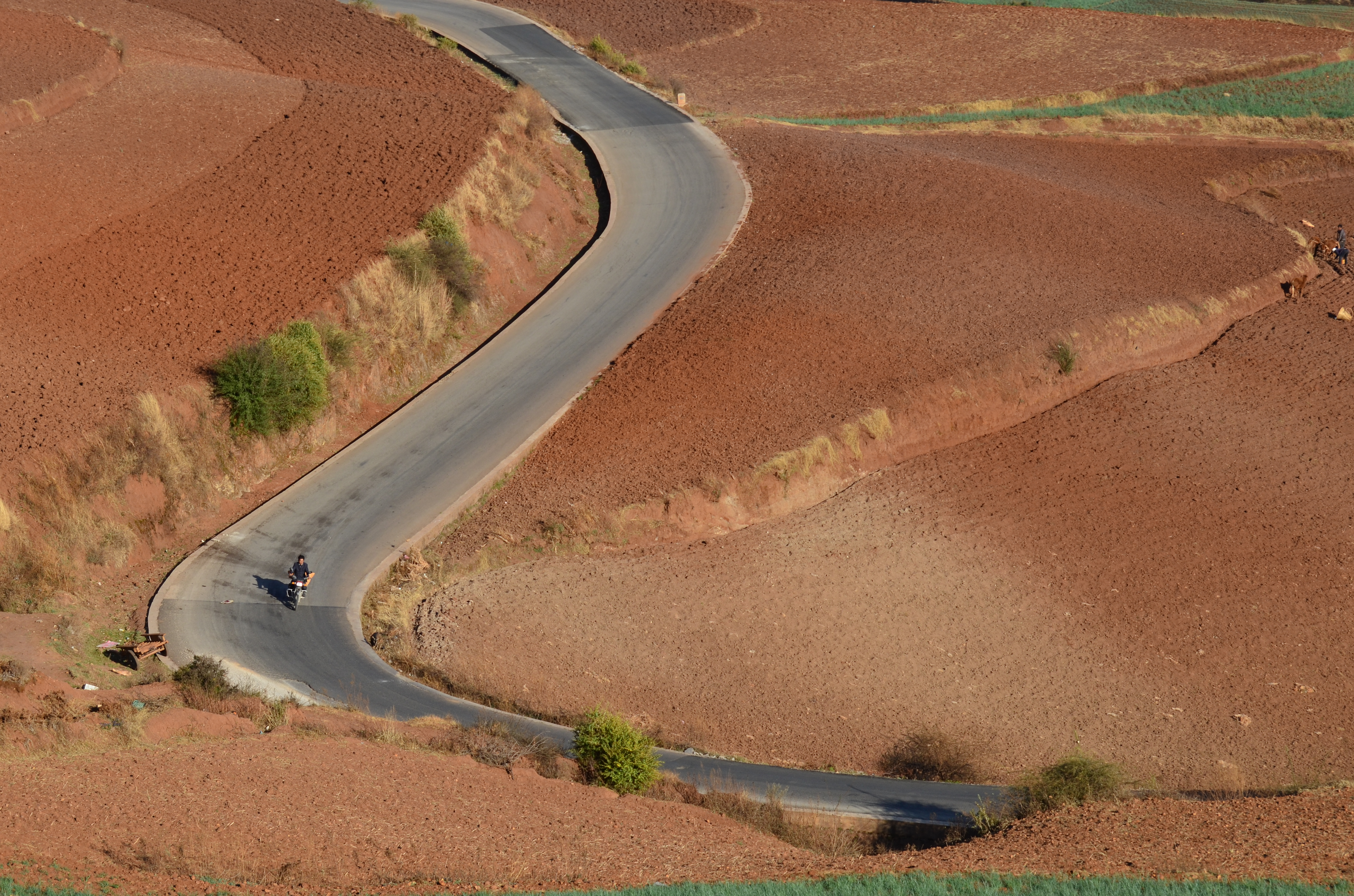 Red earth in Dongchuan District,Yunnan,China.